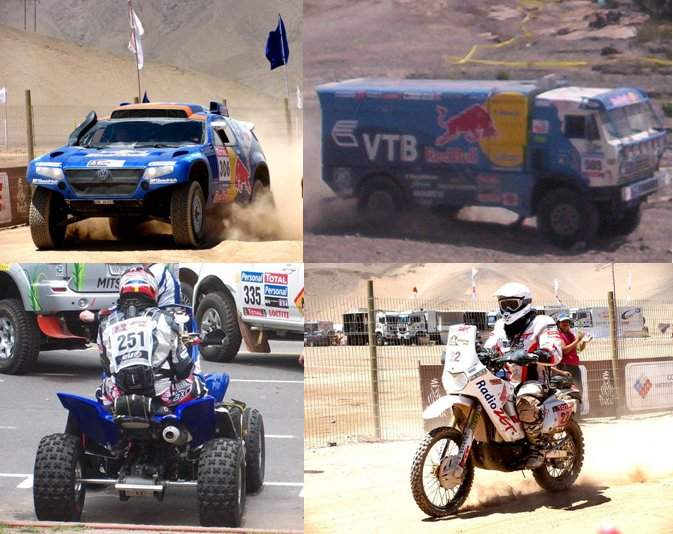 Dakar 2010. The 4 categories. 1) up-left, cars, #306 Nasser Al-Attiyah (QAT); 2) up-right, trucks, #505, Ilgizar Mardeev (RUS); 3)down-left, quads, #251, Marcos Patronelli (ARG); 4) down-right, bikes, #22, Krzysztof Jarmuz (POL).